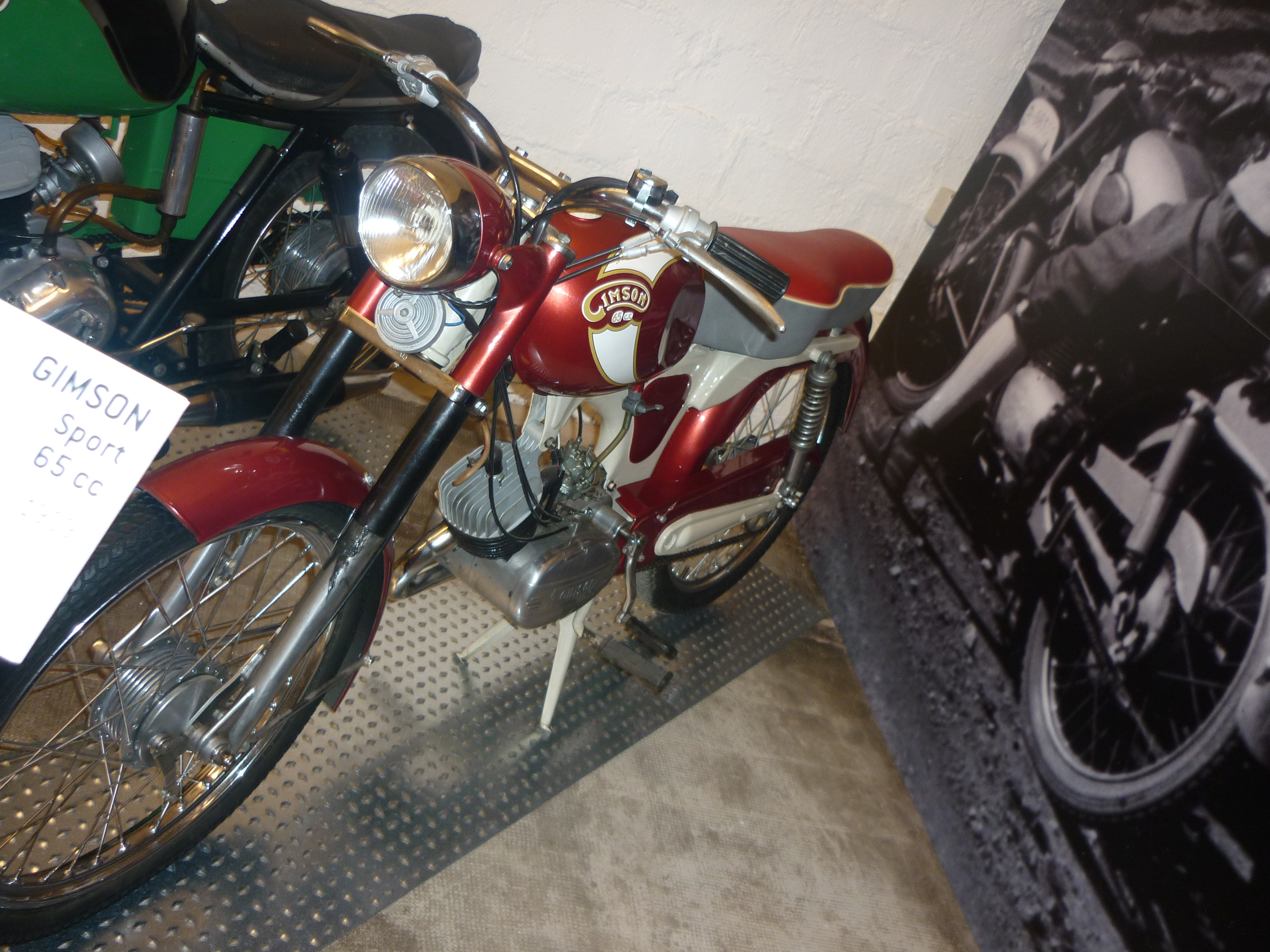 Gimson Sport 65cc (1959). Museu de la Moto de Barcelona (Catalonia).